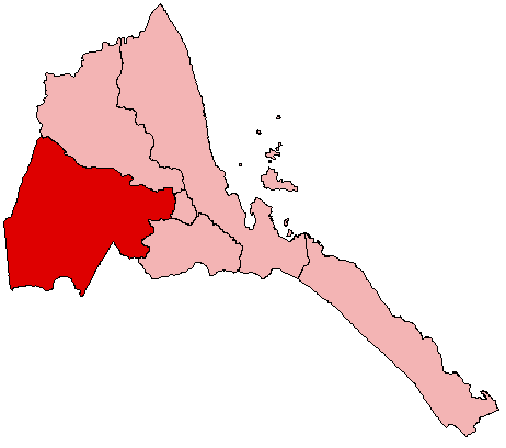 Map of Eritrea showing the Gash-Barka Region; created with the GIMP. Made by User:Acntx